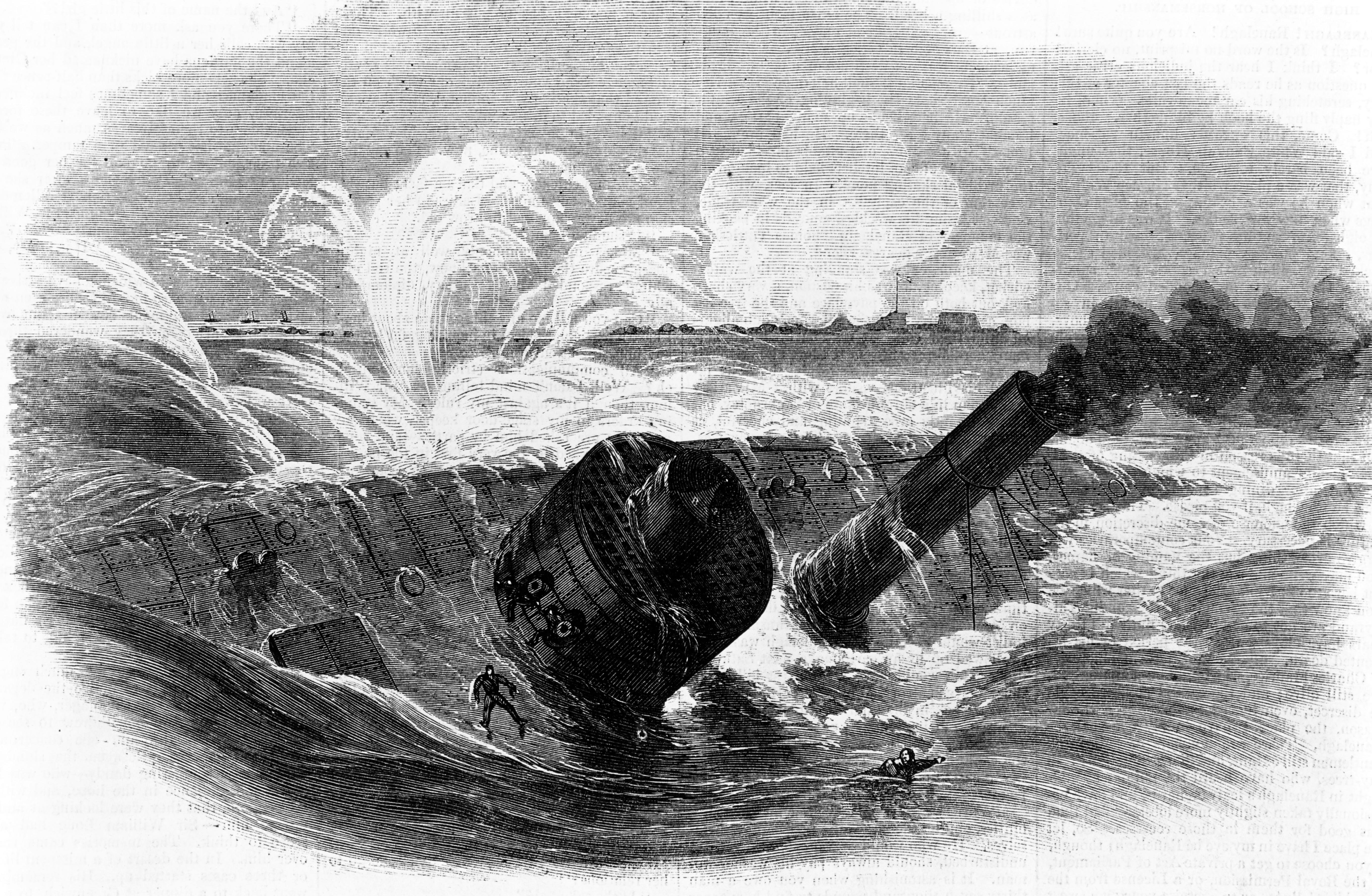 Destruction of the USS Monitor "Tecumseh" by a rebel torpedo, in Mobile Bay, August 5, 1864